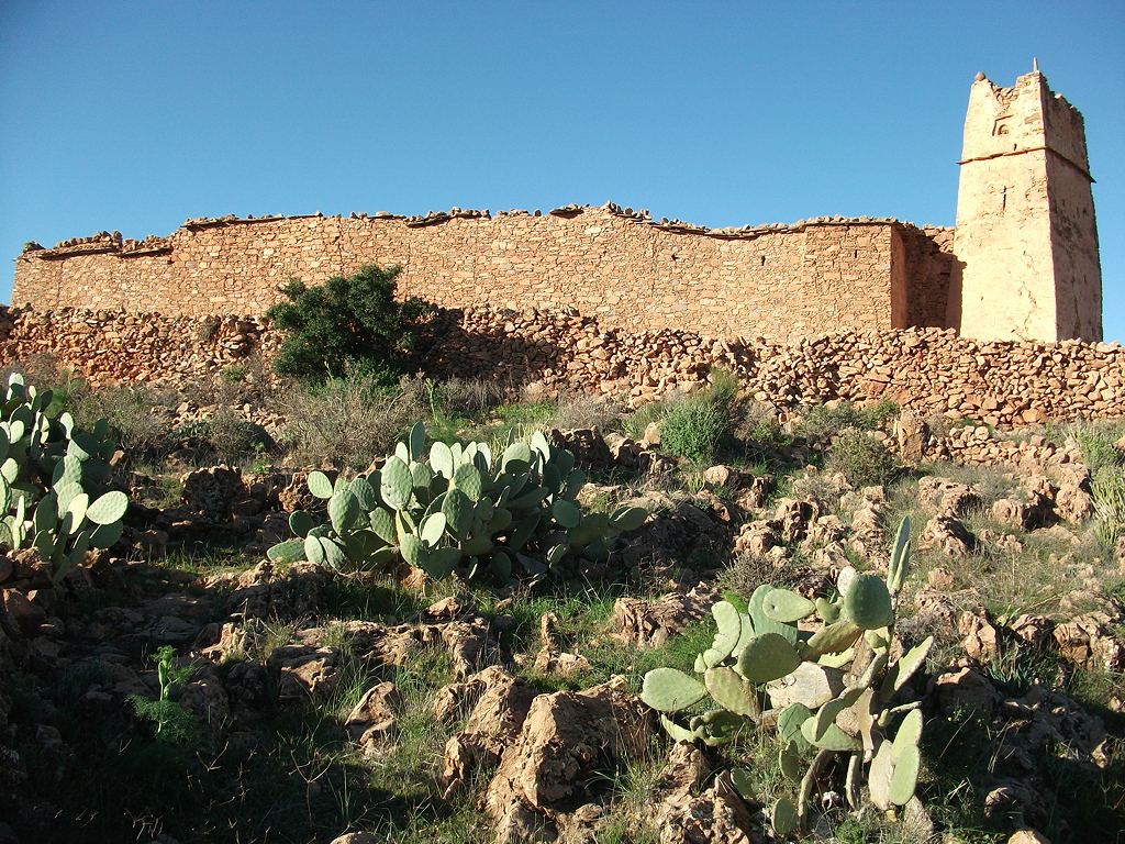 Imhilene, fortified granary, Morocco